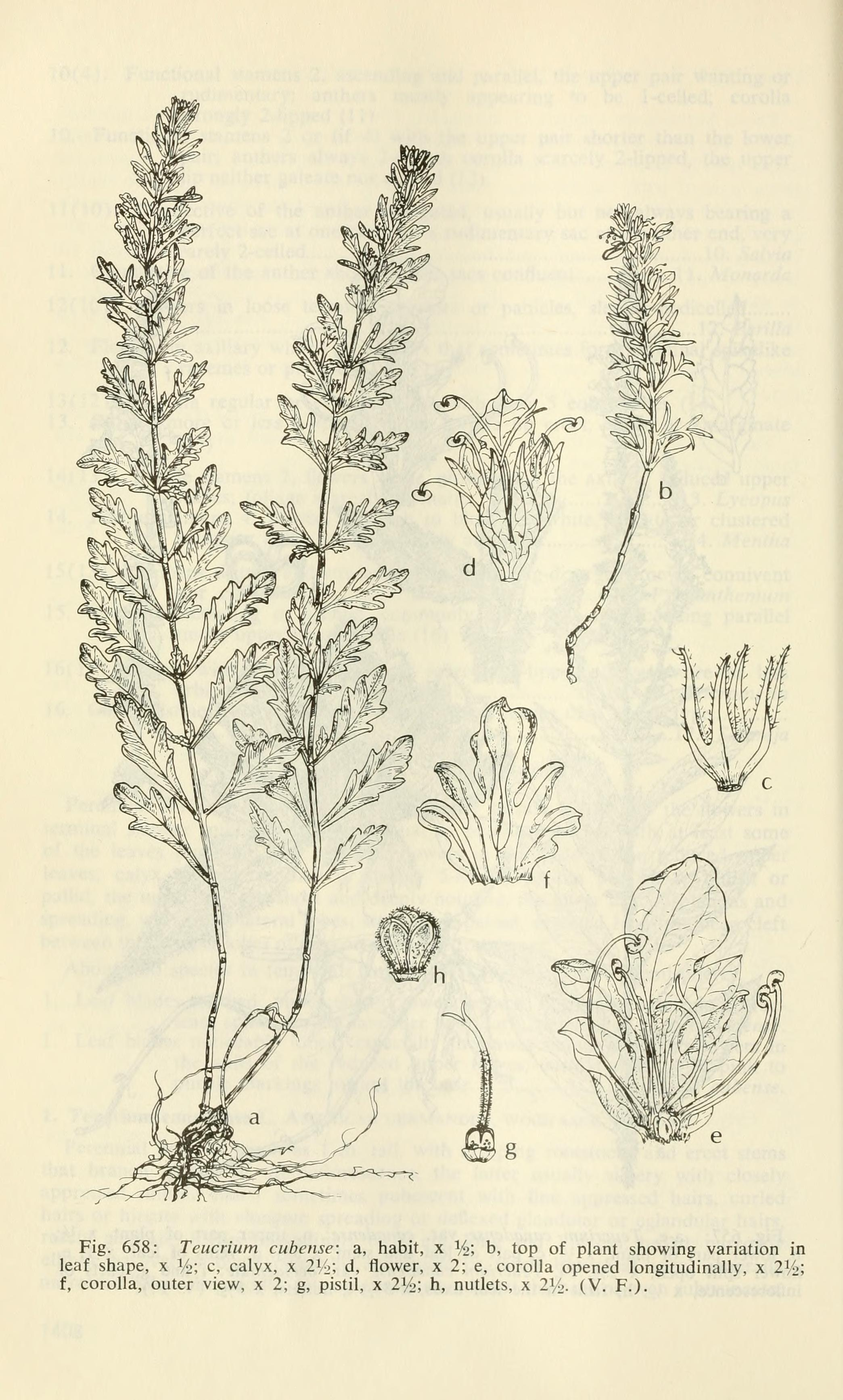 Aquatic and wetland plants of southwestern United States, by Donovan S. Correll and Helen B. Correll.